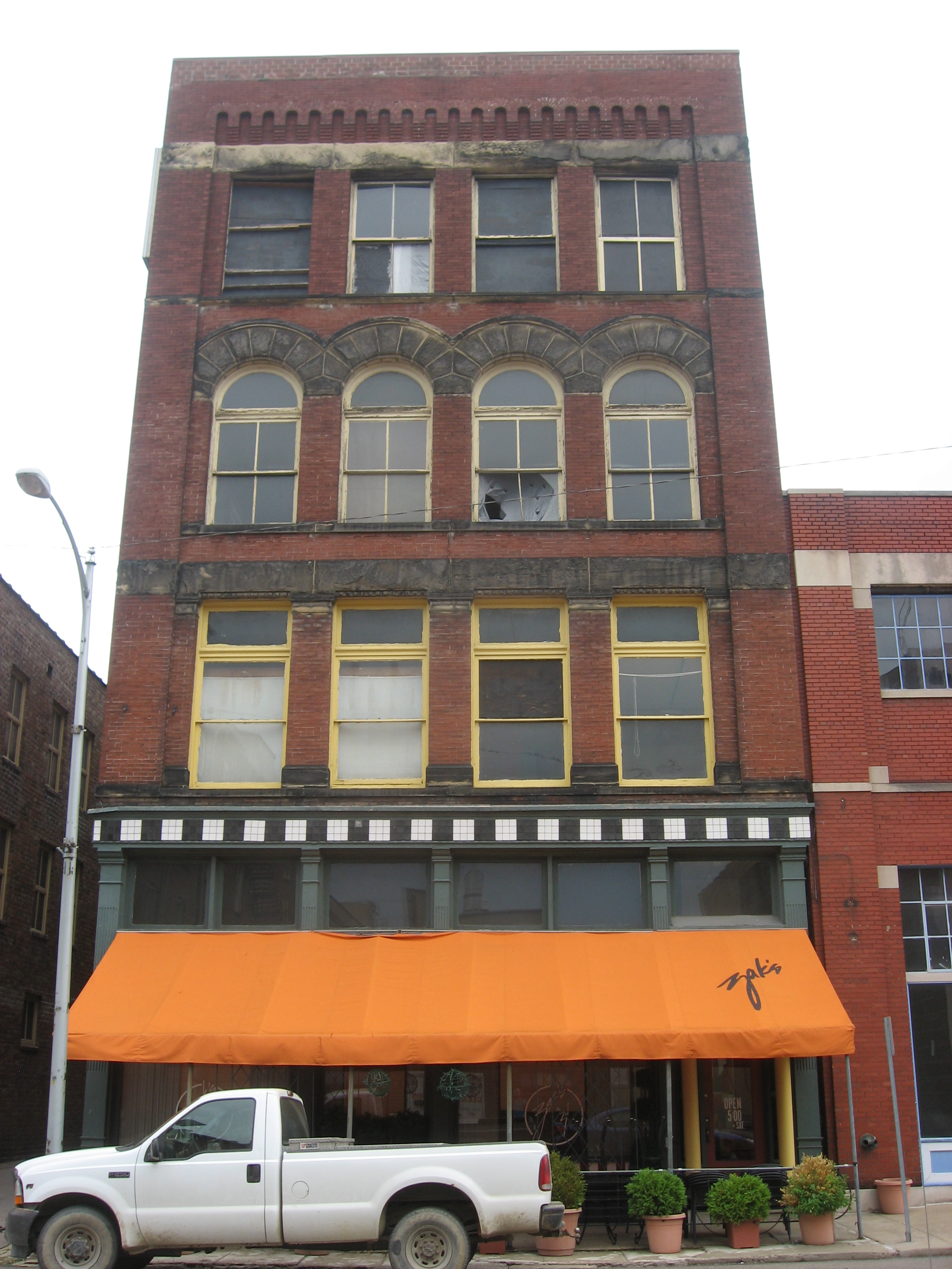 Front of the Perry Wiles Grocery Company (now Zak's Restaurant), located at 32 N. Third Street in downtown Zanesville, Ohio, United States. Built in 1892, it is listed on the National Register of Historic Places.